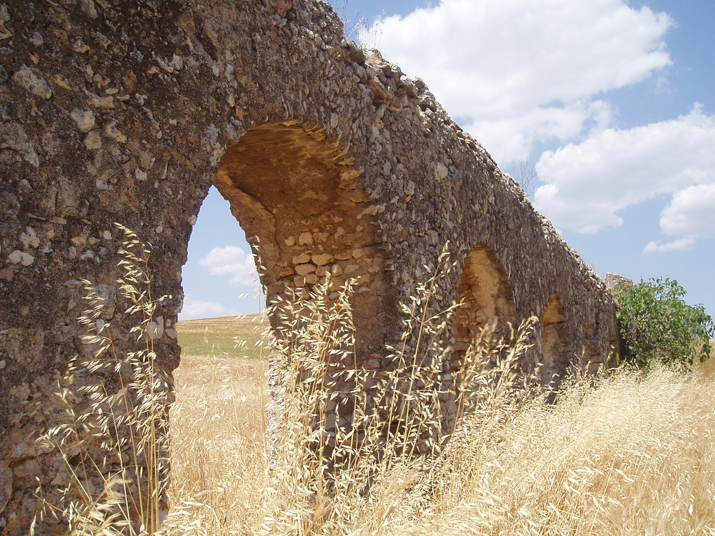 An ancient Roman aqueduct in a grain field near Rome, Italy. GPS coordinates: 42° 15' 08 45N - 11° 48' 44 36 E.